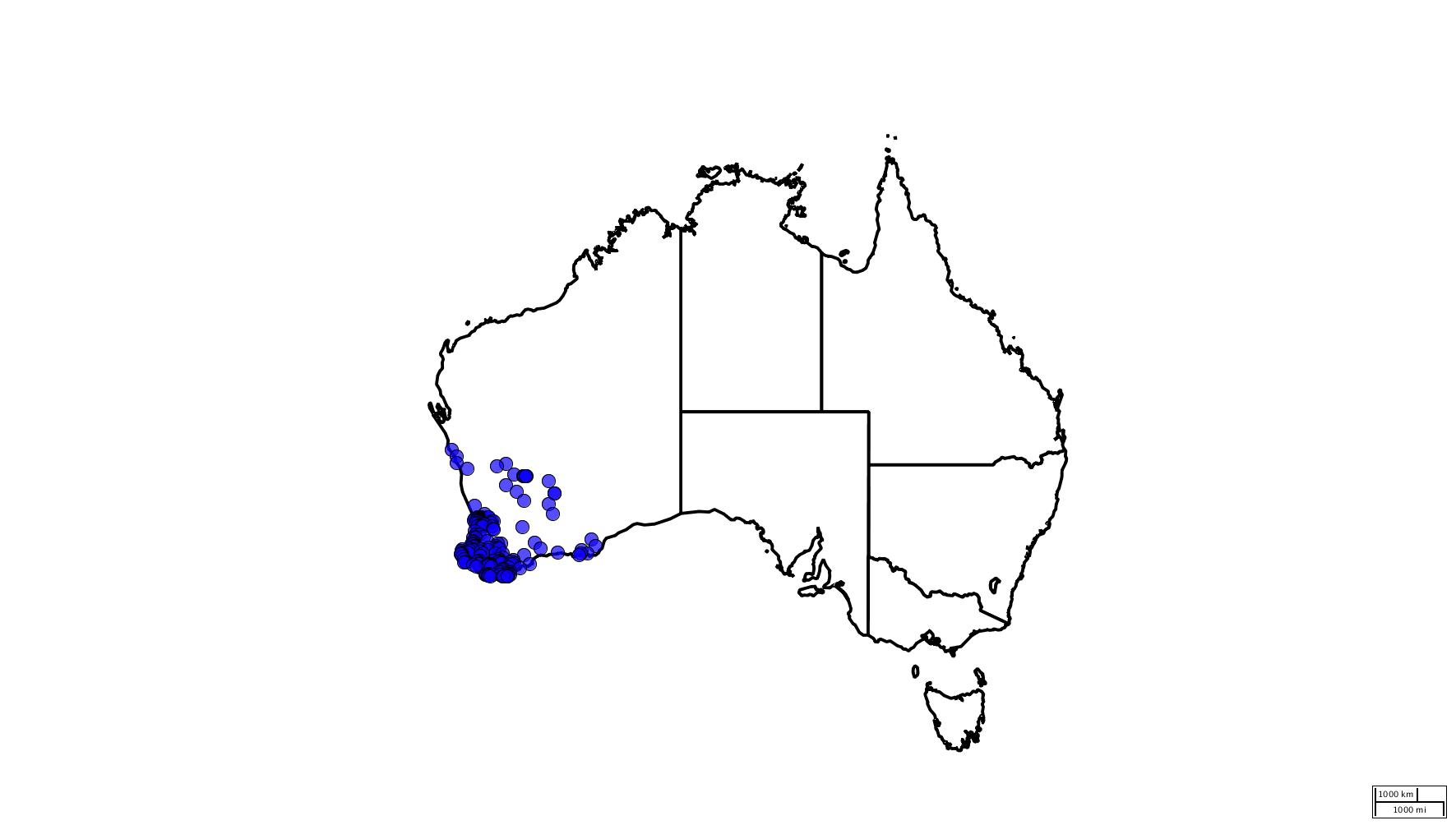 Thelymitra macrophylla distribution